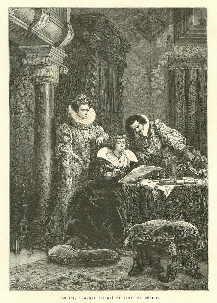 Maria de' Medici with Leonora Galigai and Concino Concini.